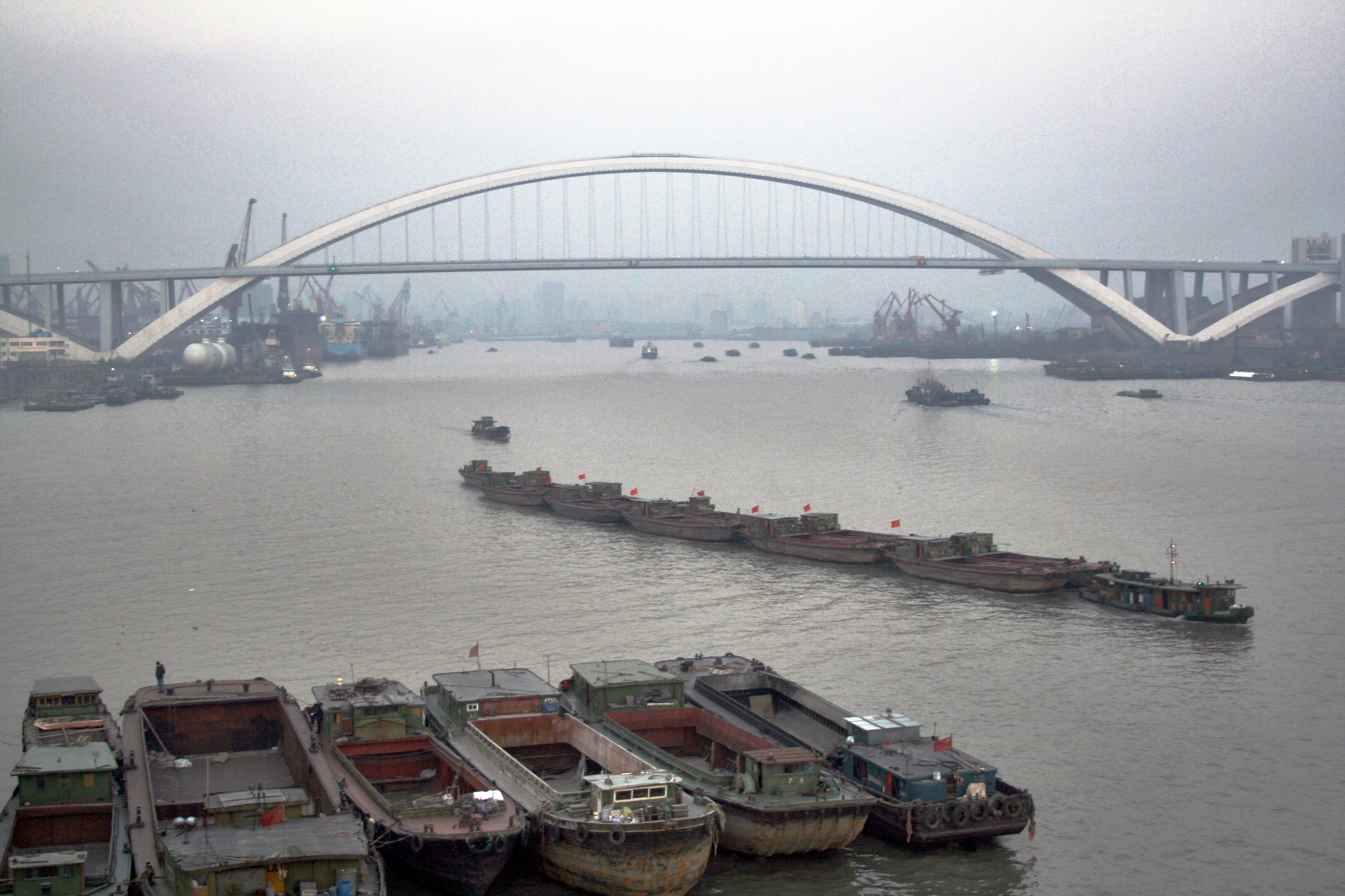 Lupu Bridge and boats on river Huangpu River